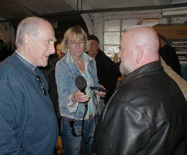 Father Graham Hullet of the 59 Club and other original members of the 59 Club interviewed by Dill Barlow of BBC Radio 4 'Home Truths'.